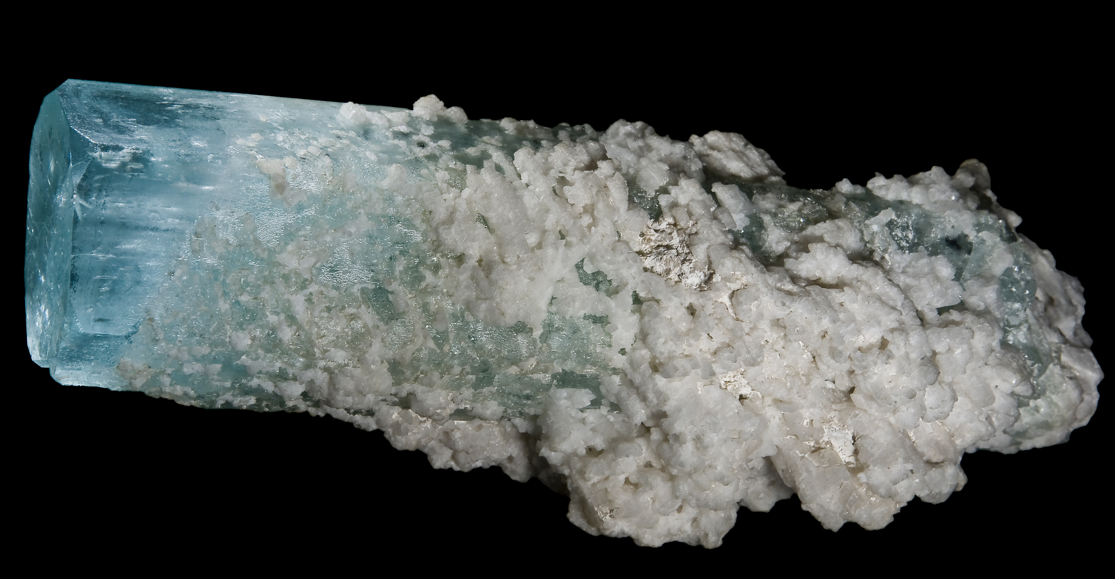 Aquamarine and albite - Minas Gerais - Brasil ( 10.2x4cm)